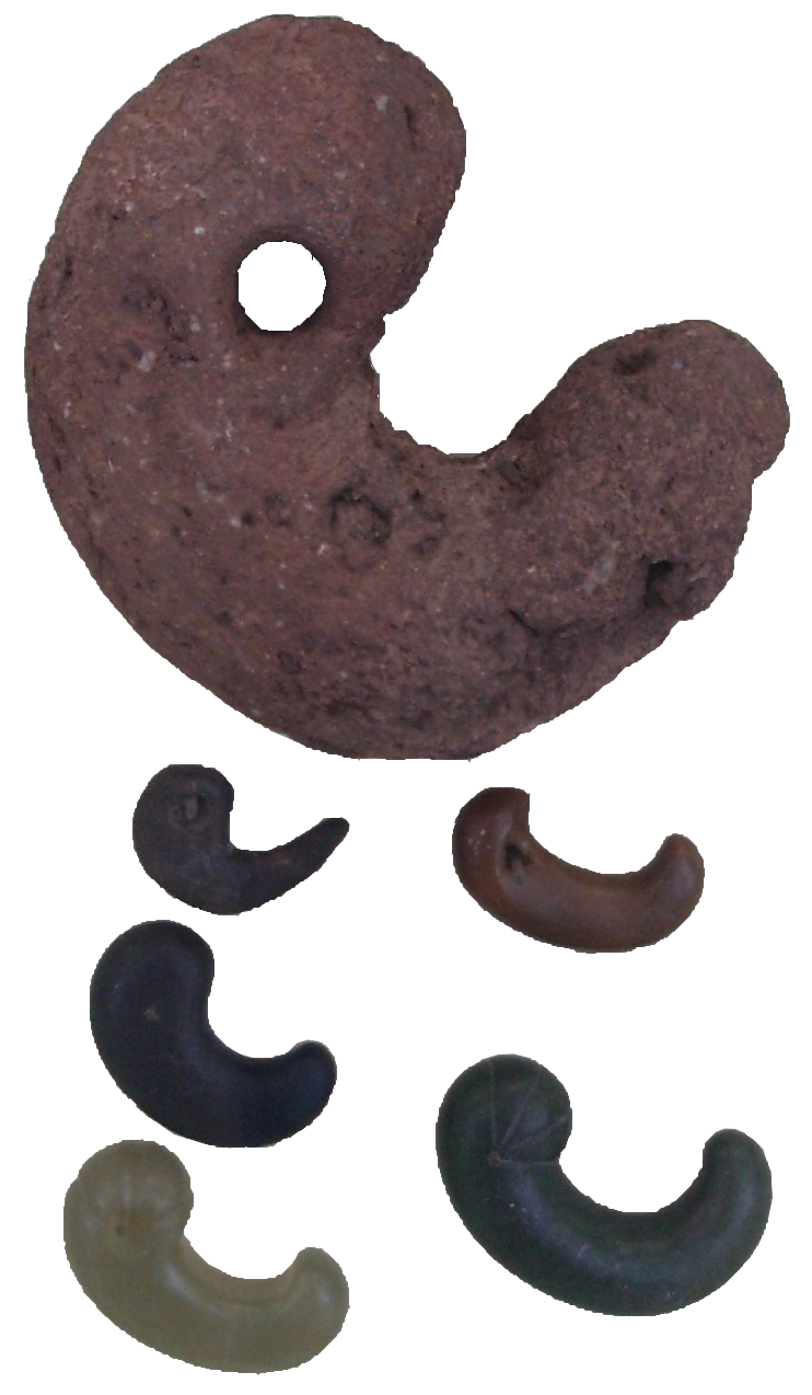 Jomon to 8th Century Magatama, Tokyo Area. Royal Museum, Edinburgh